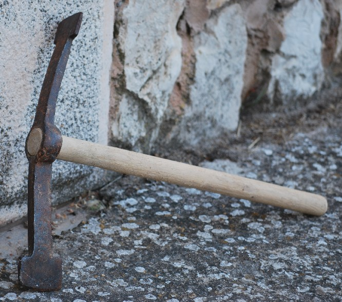 Alcotana from the earliest XX century